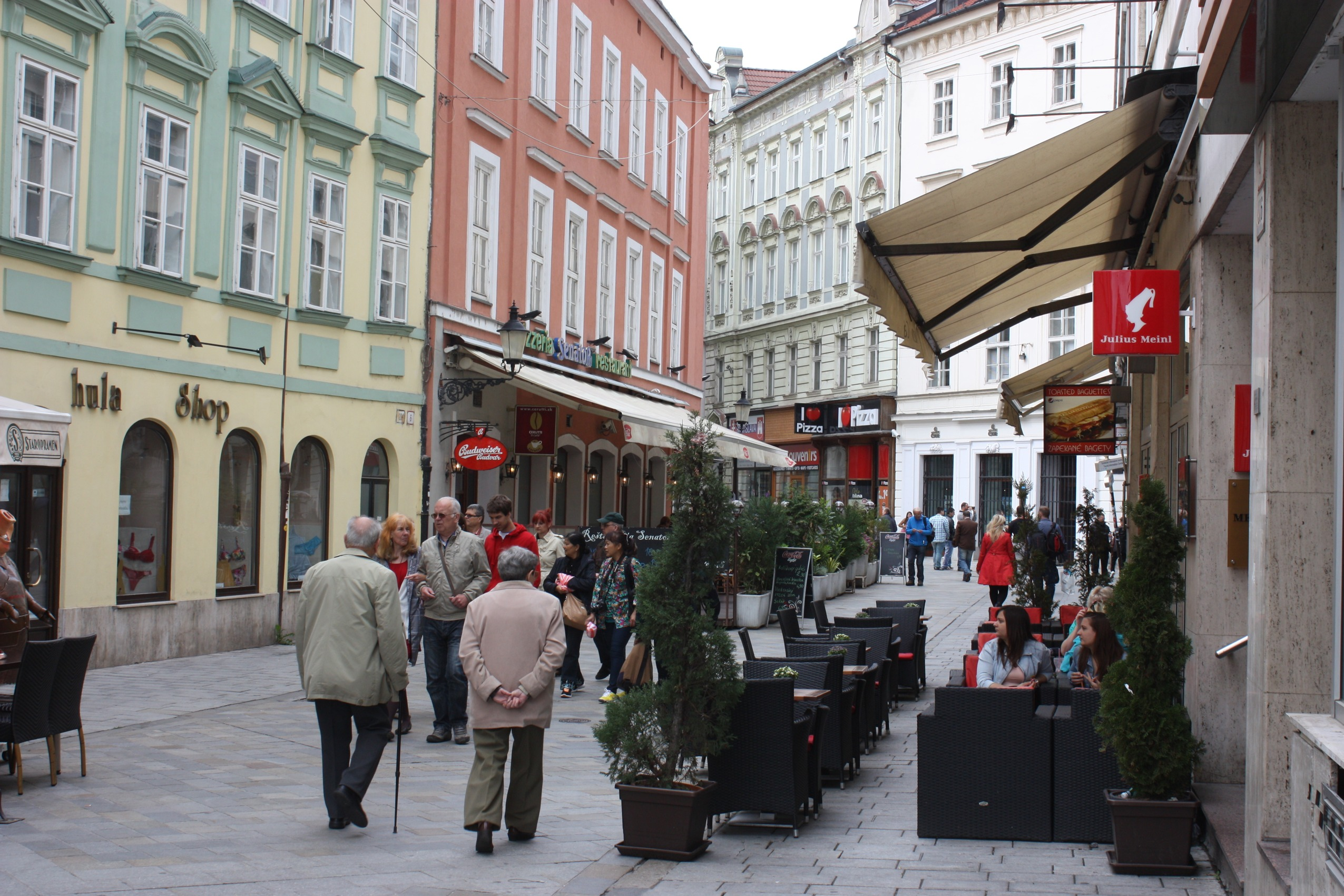 Bratislava, the street "Rybárska brána"